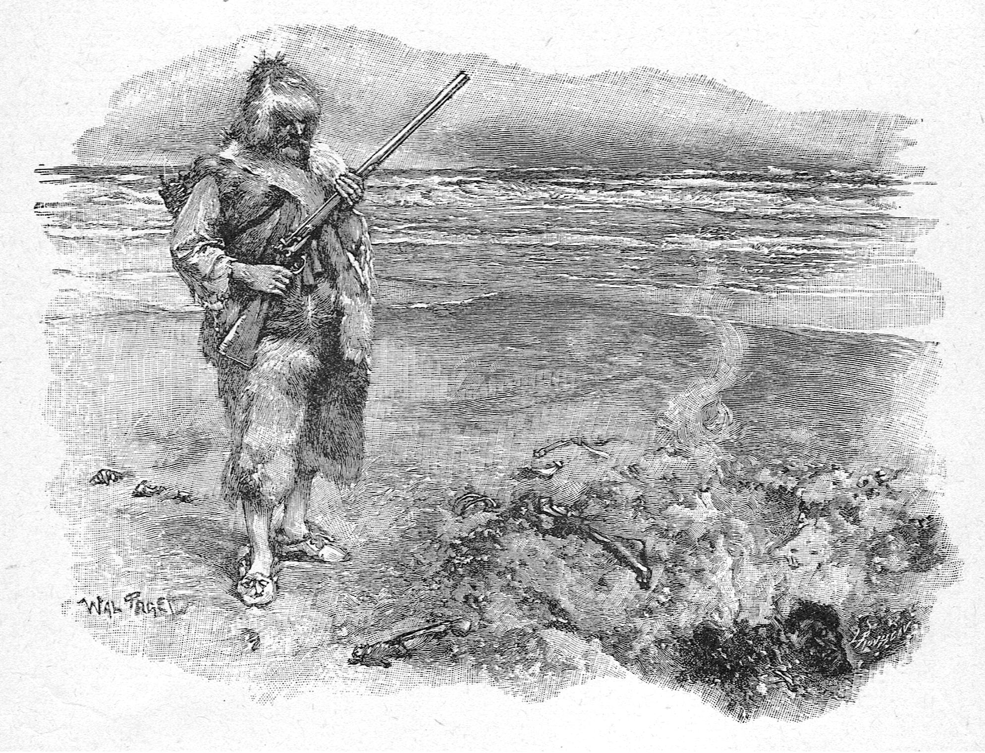 Page 129 of the Czech edition 1894 (Robinson found the remains of the dinner)